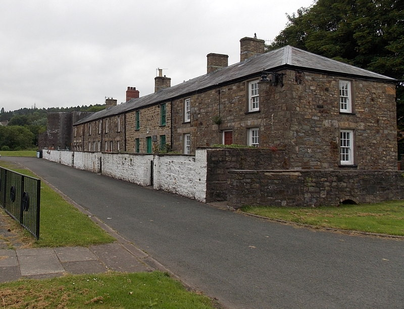 Chapel Row, Merthyr Tydfil. Built in the 1820s for the workers of Cyfarthfa Ironworks. The Parry cottage is the one with a green door and trim.